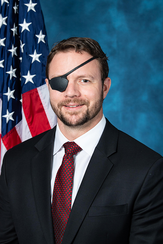 US Rep Dan Crenshaw